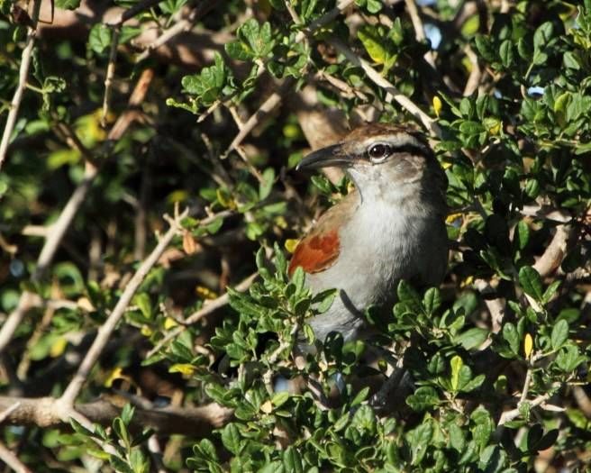 Southern tchagra (Tchagra tchagra) at Addo Elephant National Park, South Africa.